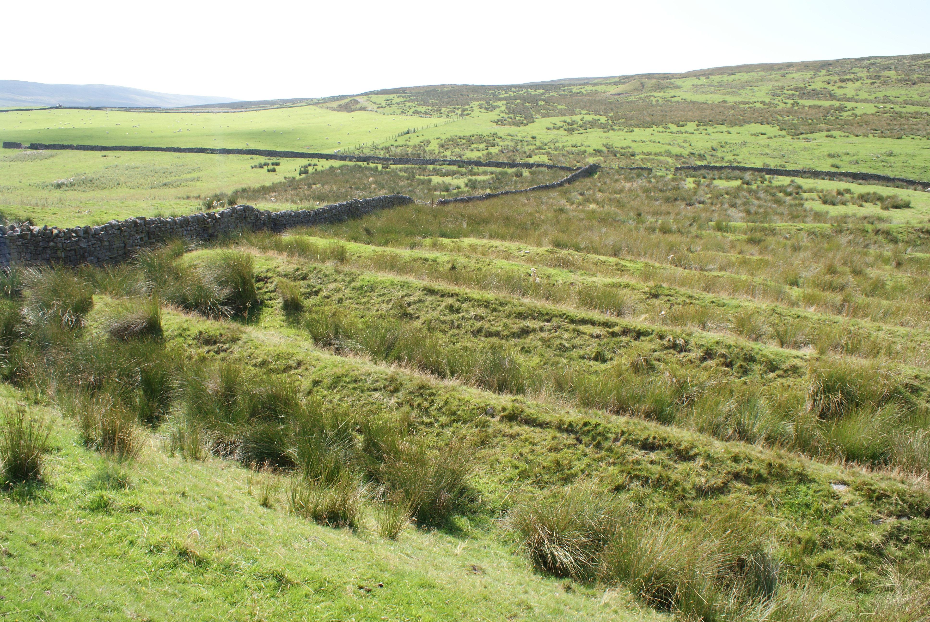 Seven banks and ditches on uphill side of Whitley Castle, Epiacum Roman Fort, in moorland near Alston, Cumbria. The ditches trap water and are filled with tufts of rushes (Juncus sp.) contrasting with the brighter grass of the banks. The photo is taken from the main bank which held the wall of the fort.